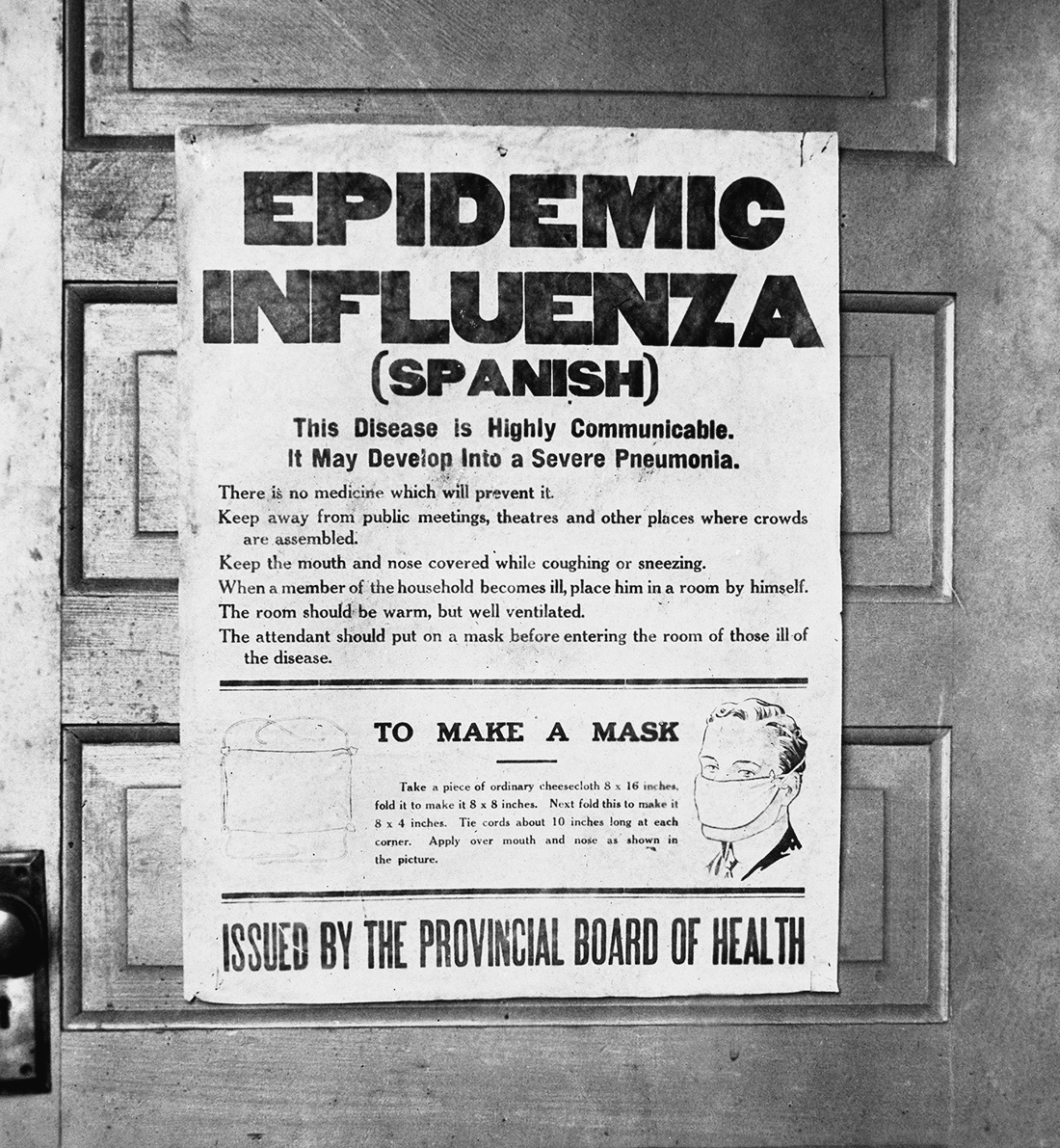 A period photo of a poster issued by Alberta's Provincial Board of Health alerting the public to the 1918 influenza epidemic. The poster gives information on the Spanish flu, and instructions on how to make a mask.